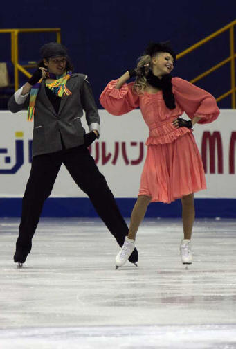 Oksana DOMNINA and Maxim SHABALIN. Grand Prix Final 2008. OD - Rhythms of the 1920s, 1930s, and 1940s